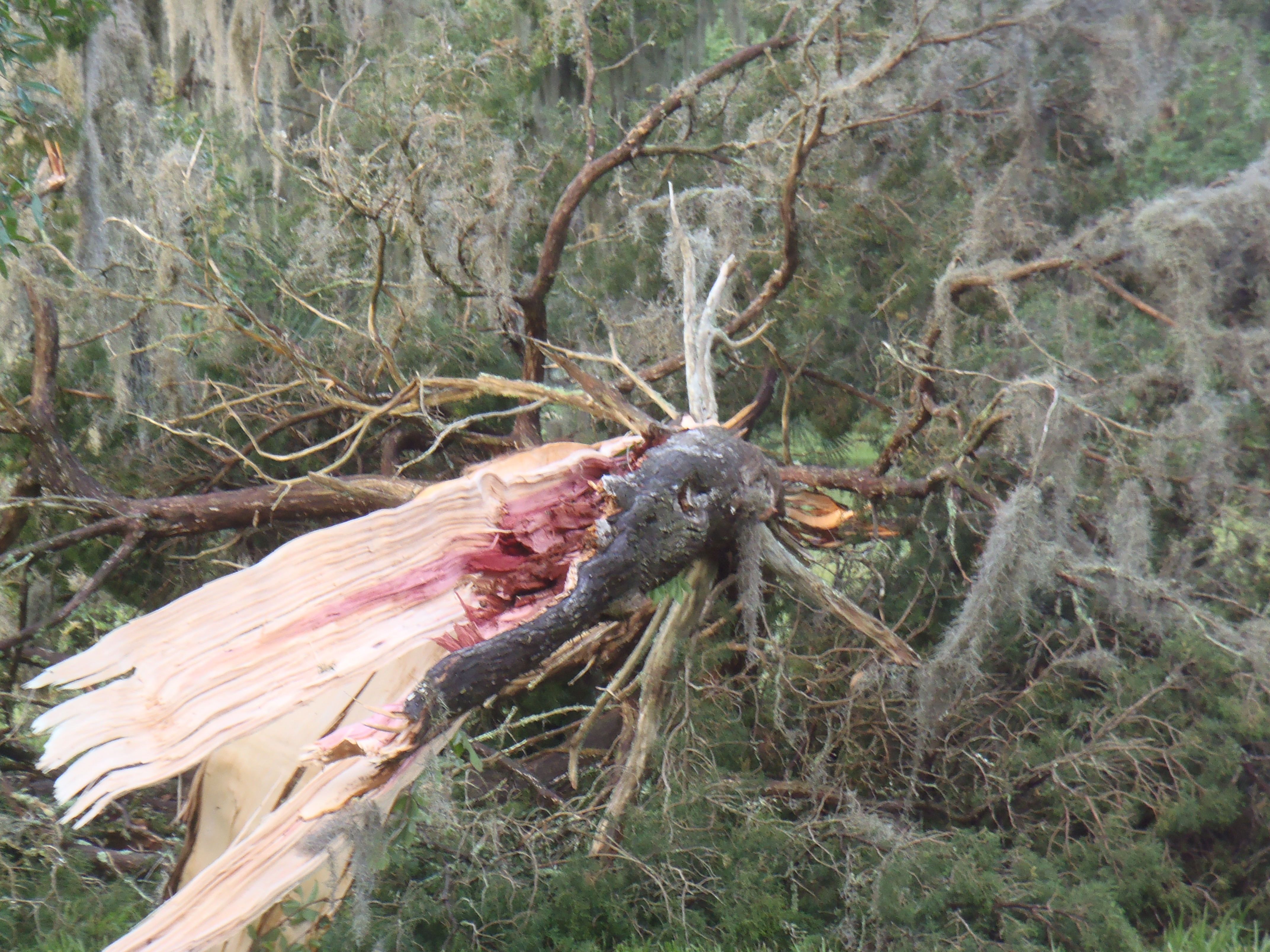 This live oak was split by a lightning bolt during a severe thunderstorm. The wood of the live oak is very beautiful and almost seamless. Live oaks are very strong trees and were used a lot in ship building, especially in the bows, as their 'boughs" had the perfect curvature. Credit: USFWS/Jamie Letendre